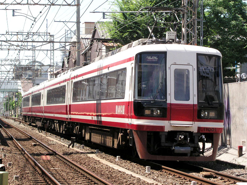 Nankai Electric Railway type 11000